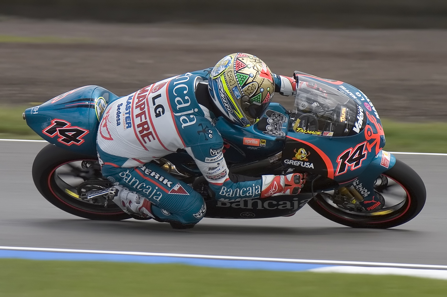 Gábor Talmácsi World Championship winner Hungarian motorcycle racer with the number 14 driving for the Bancaja Aspar Team on an Aprilia 125 cc. The shot is during second qualifying session of the 2007 British GP at Donington.